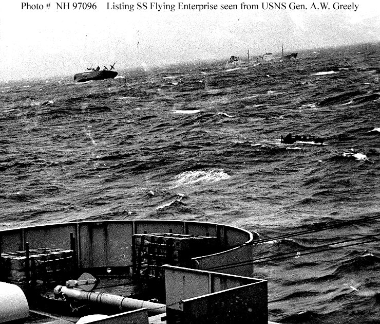 Picture taken form USNS General A.W. Greely (T-AP-141), circa 29 December 1951 showing the Flying Enterprise with heavy heel. Source: US NAVY